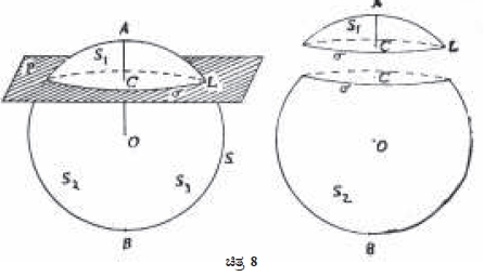 diagrams